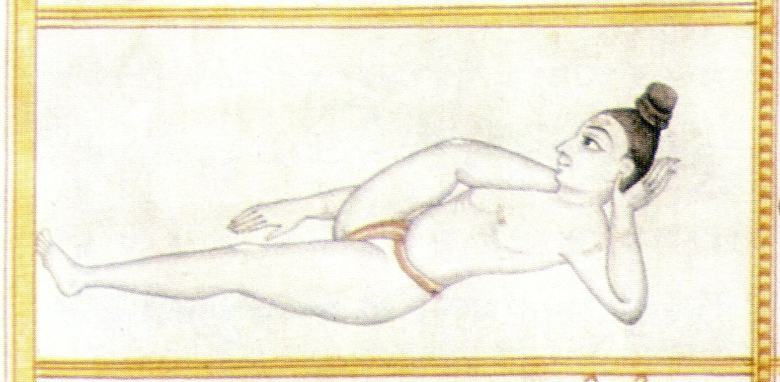 Illustration of Ankusasana, the elephant goad pose from the 19th century Sritattvanidhi. The pose is named Bhairavasana in Light on Yoga.